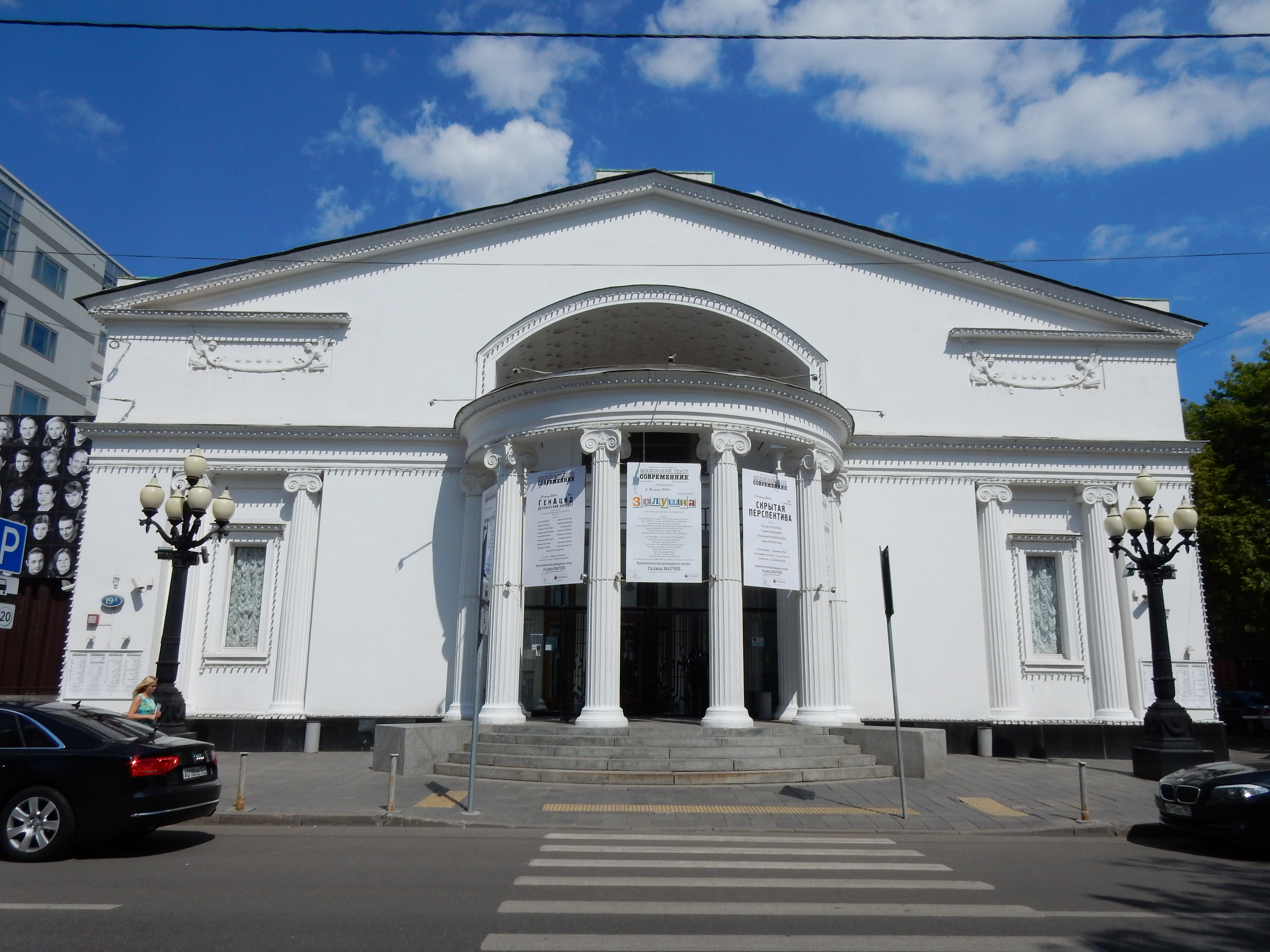 Moscow, Sovremennik theatre. July 2014.